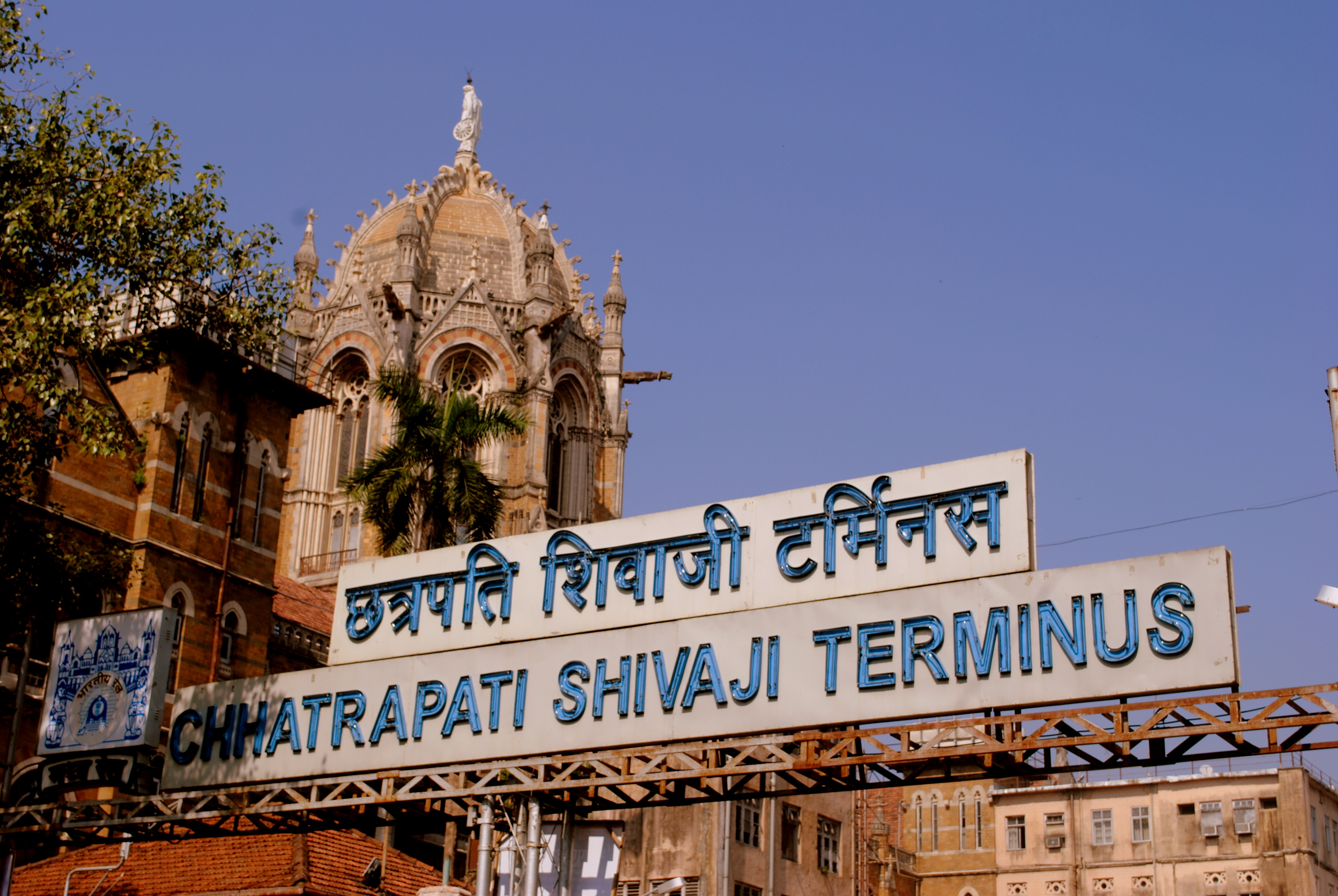 Chhatrapati Shivaji Terminus CST (formerly Victoria Terminus- VT), Mumbai, India.